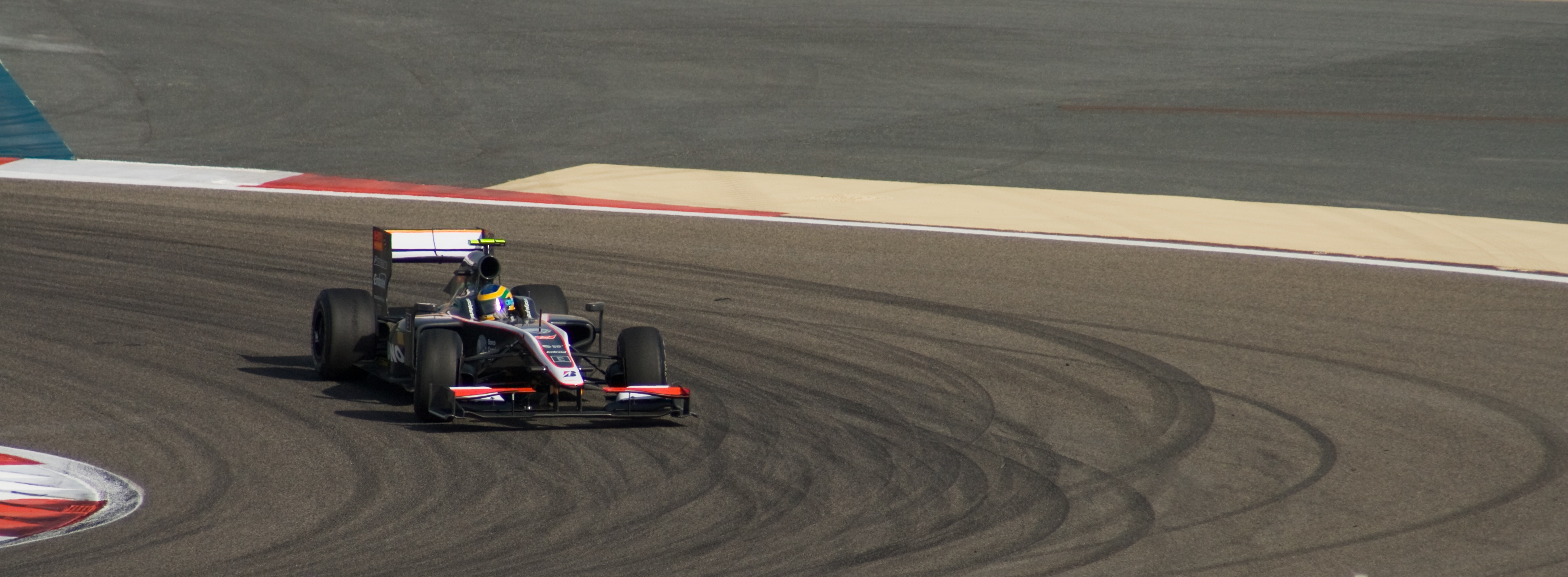 Car on the circuit during a practice session on Friday of the 2010 Bahrain Formula One.